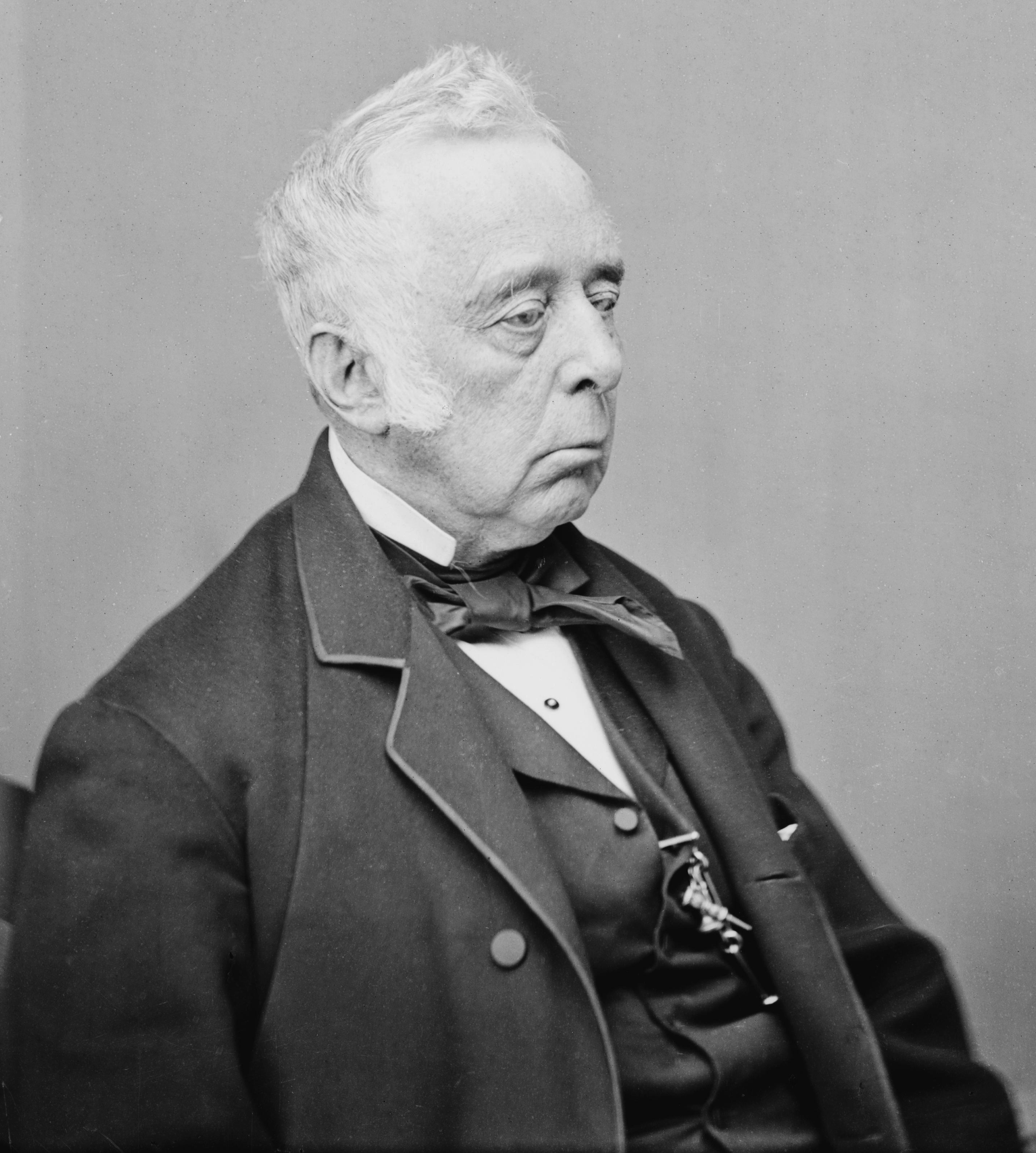 Reverdy Johnson. Library of Congress description: "Hon. Reverdy Johnson"; Library of Congress Prints and Photographs Division, Brady-Handy Photograph Collection; CALL NUMBER: LC-BH82- 29 B